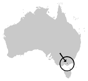 Distribution of the Baw Baw Frog (Philoria frosti). User:Froggydarb/GFDL-self.